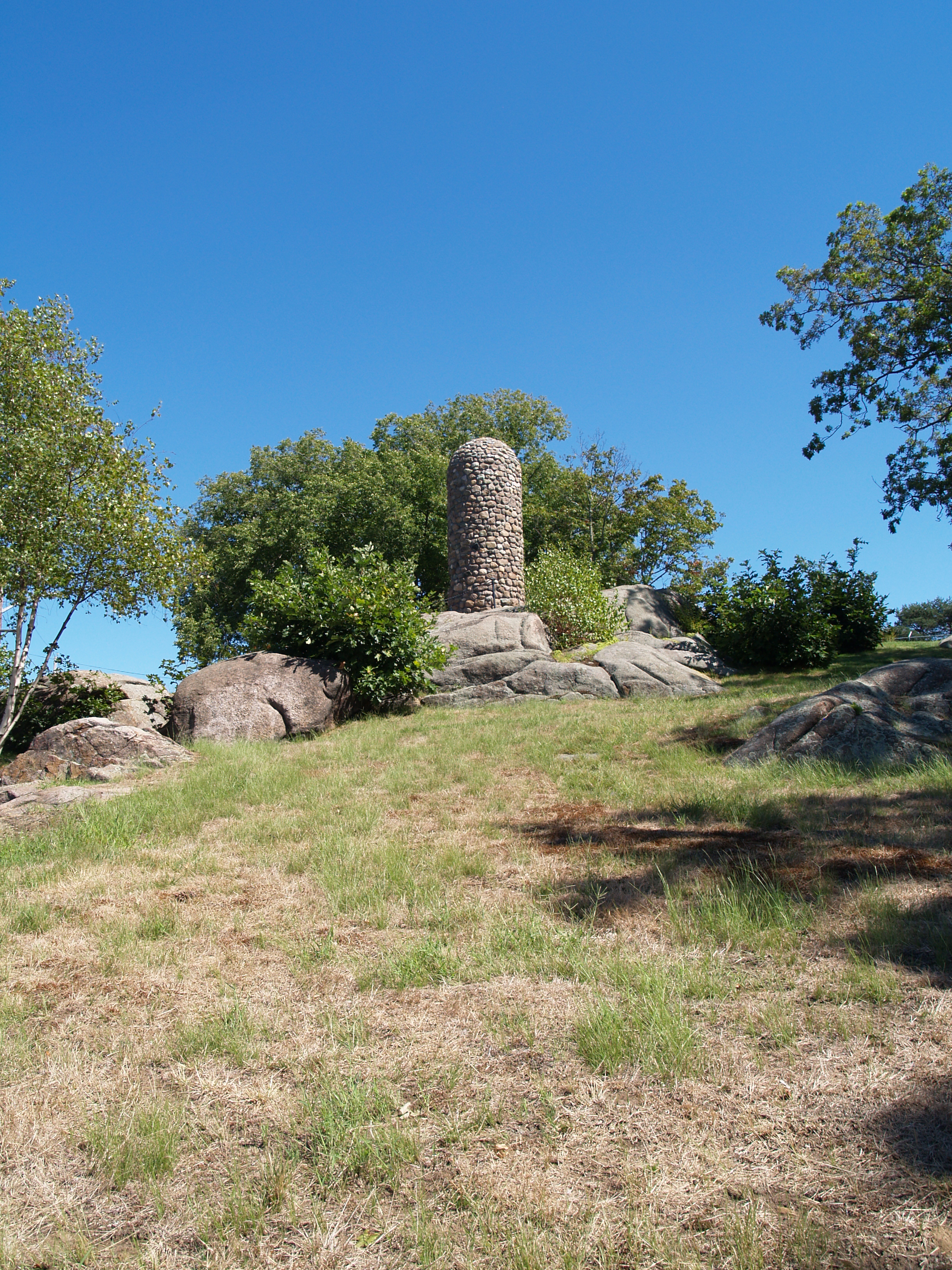 View of the Abigail Adams Cairn, as seen from the west side, near the corner of Viden St and Franklin St in Quincy, Ma. The cairn was erected June 17, 1896